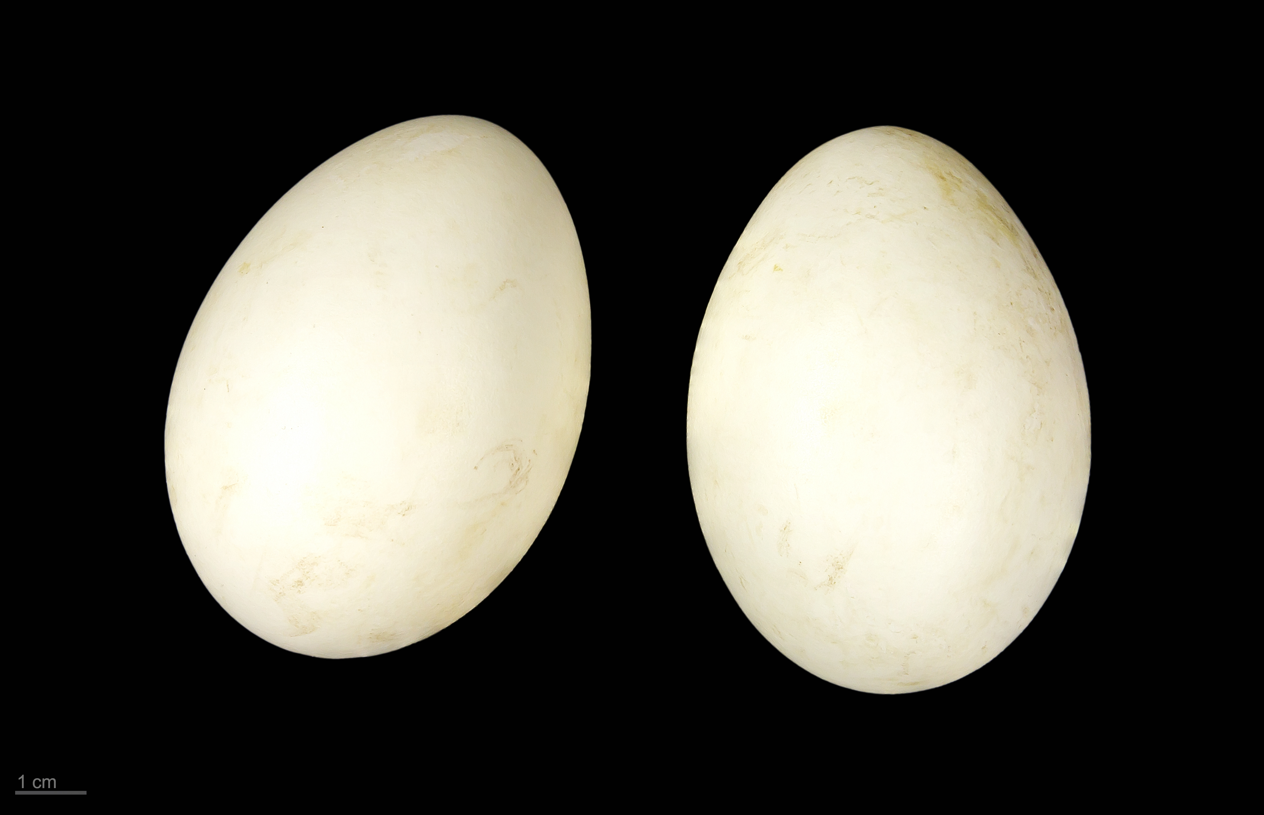 Egg of barnacle goose Collection of Jacques Perrin de Brichambaut.